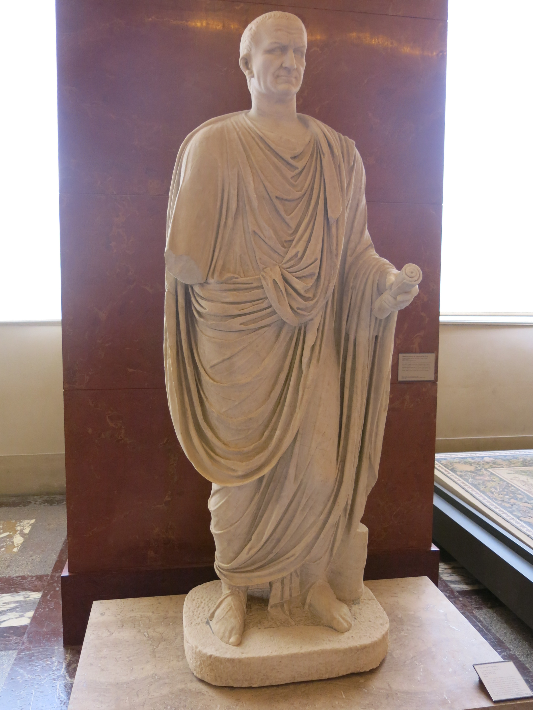 Statue of the roman emperor Vespasian (69-79 AC). End of 1st century. Marble. Purchase 1861. Louvre museum (Paris, France).